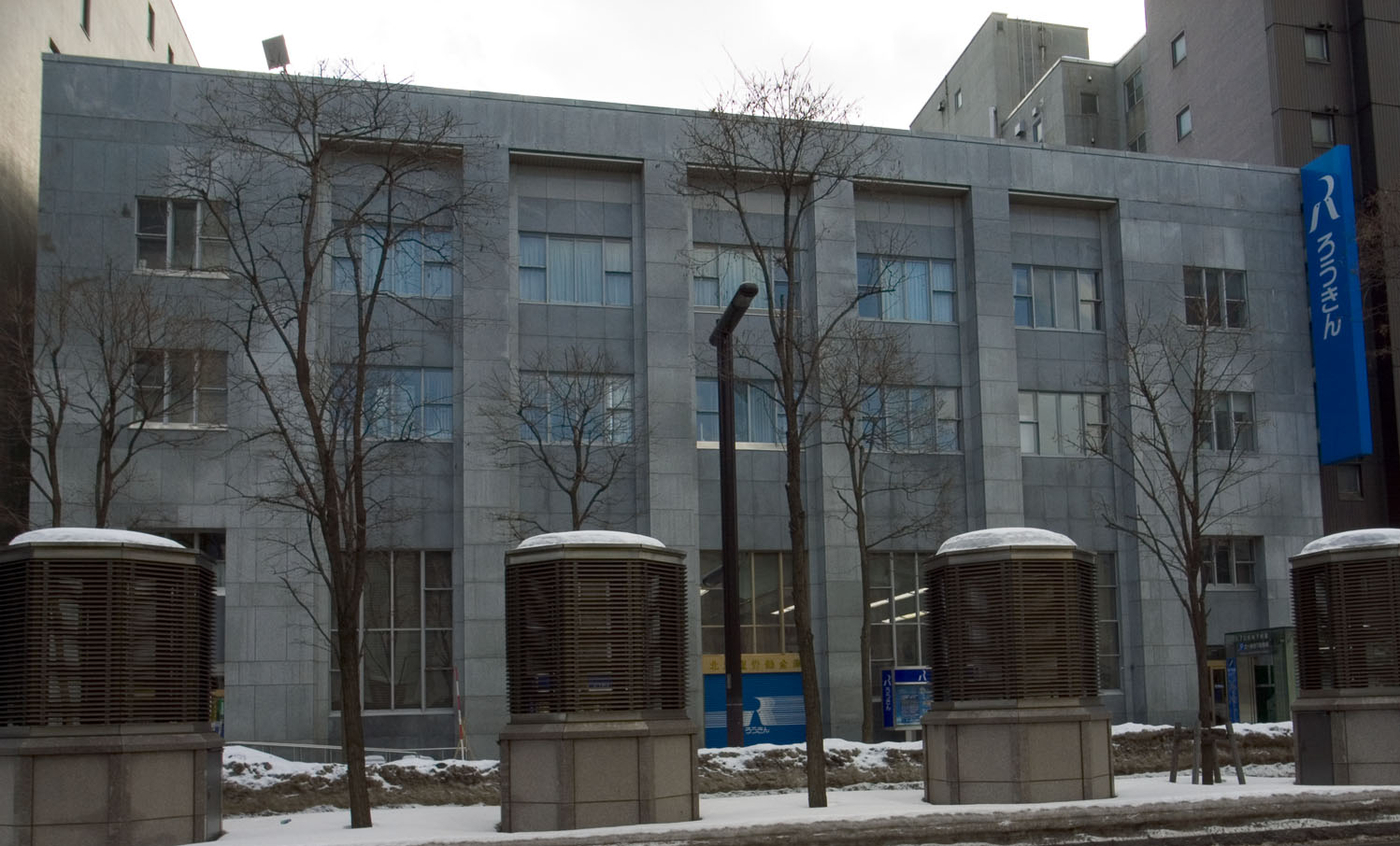 Main office of Hokkaido Roudou Kinko, Sapporo, Hokkaido, Japan